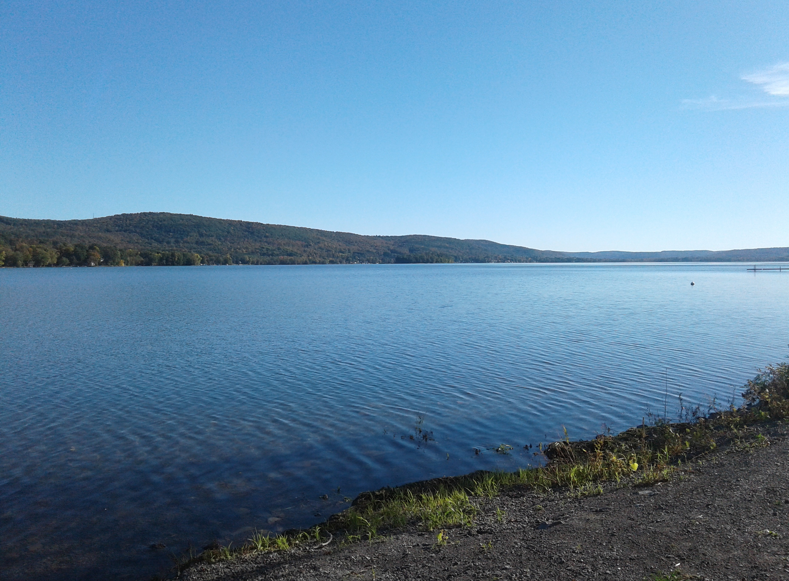 View of Canadarago Lake, NY from Elm Street Ext. (Dump Rd.). Looking south.